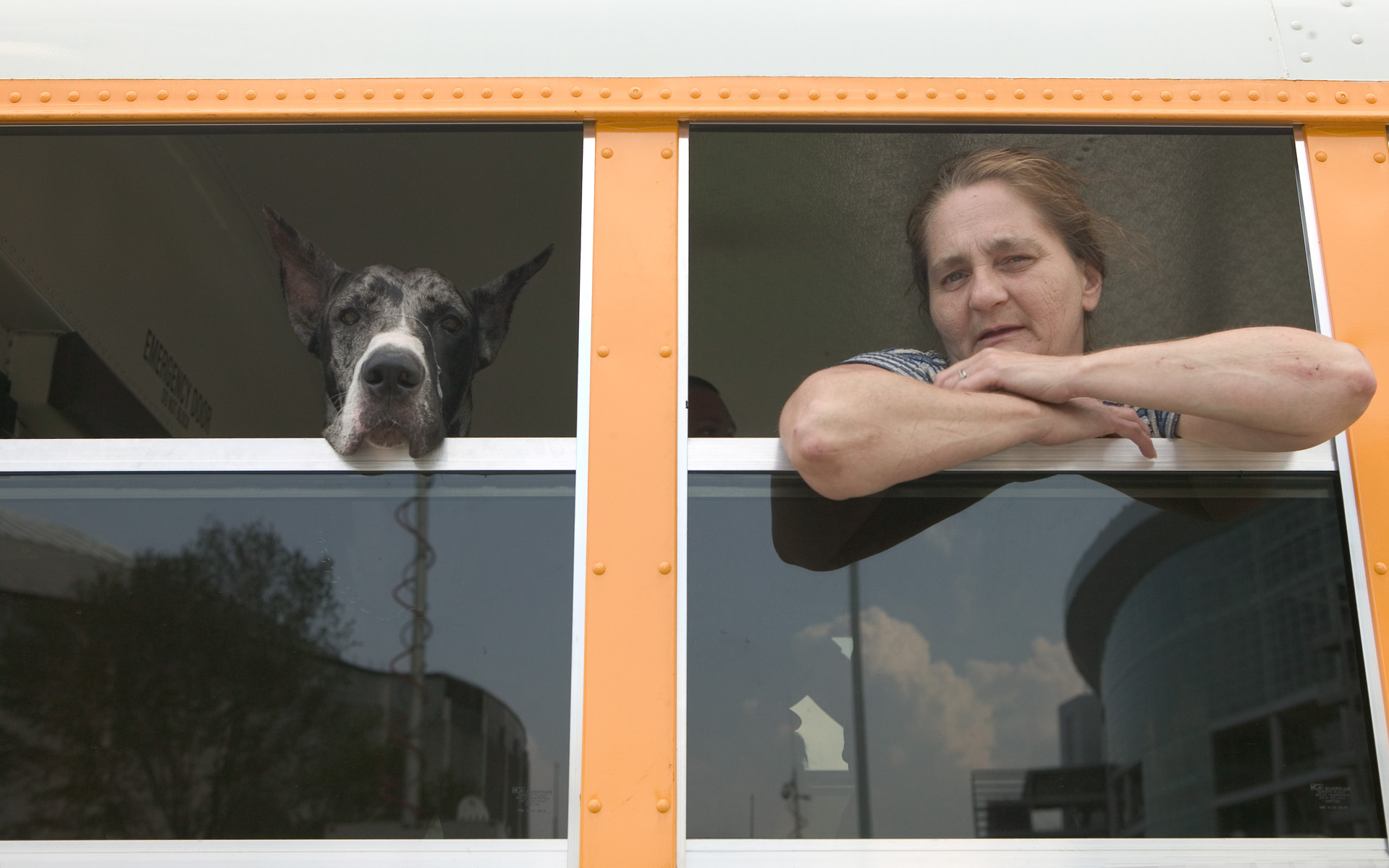 Houston, TX., September 1, 2005 -- This lady and her dog along with thousands of other hurricane Katrina survivors from New Orleans are being bussed to refuge at a Red Cross shelter in the Houston Astrodome. FEMA photo/Andrea Booher